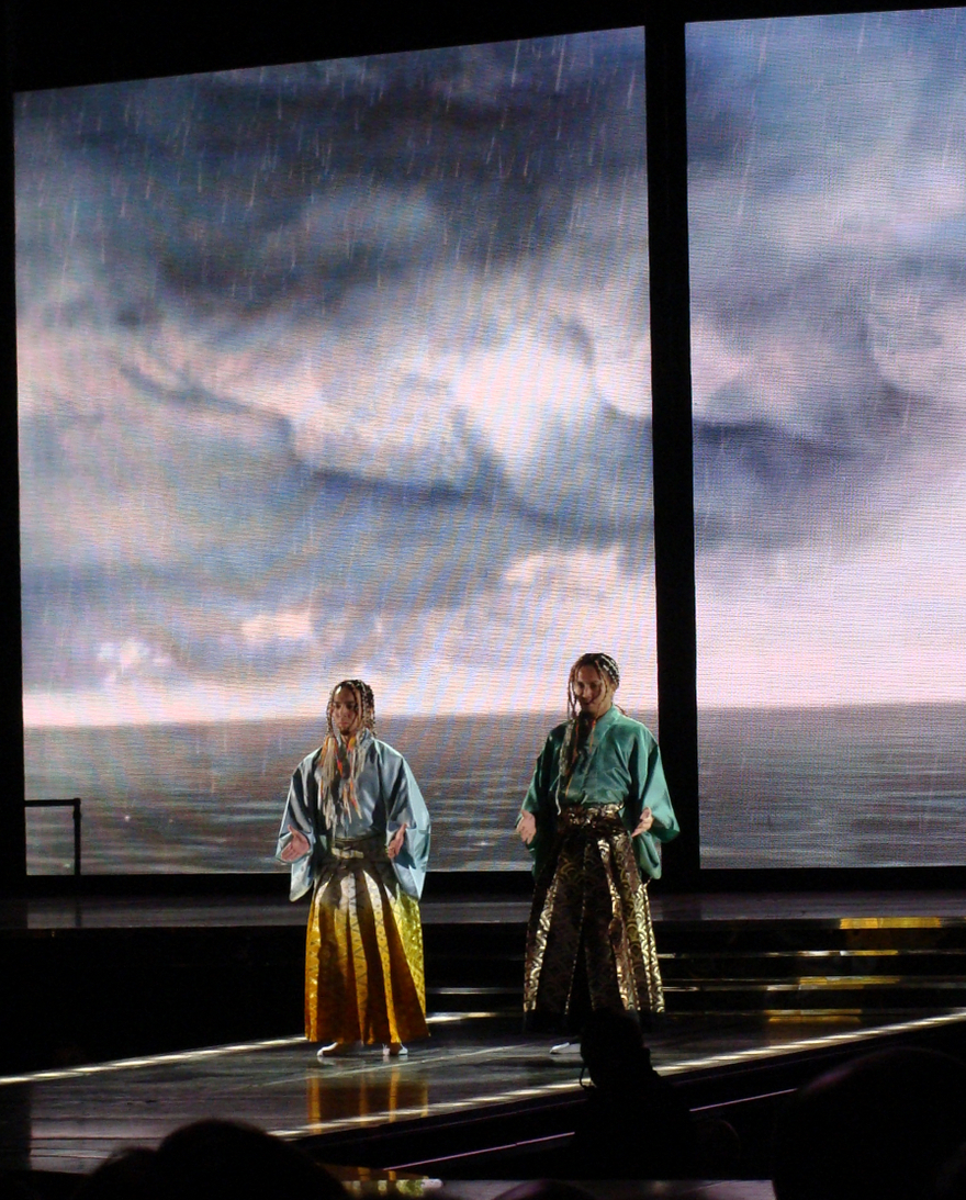 Photo taken at the concert